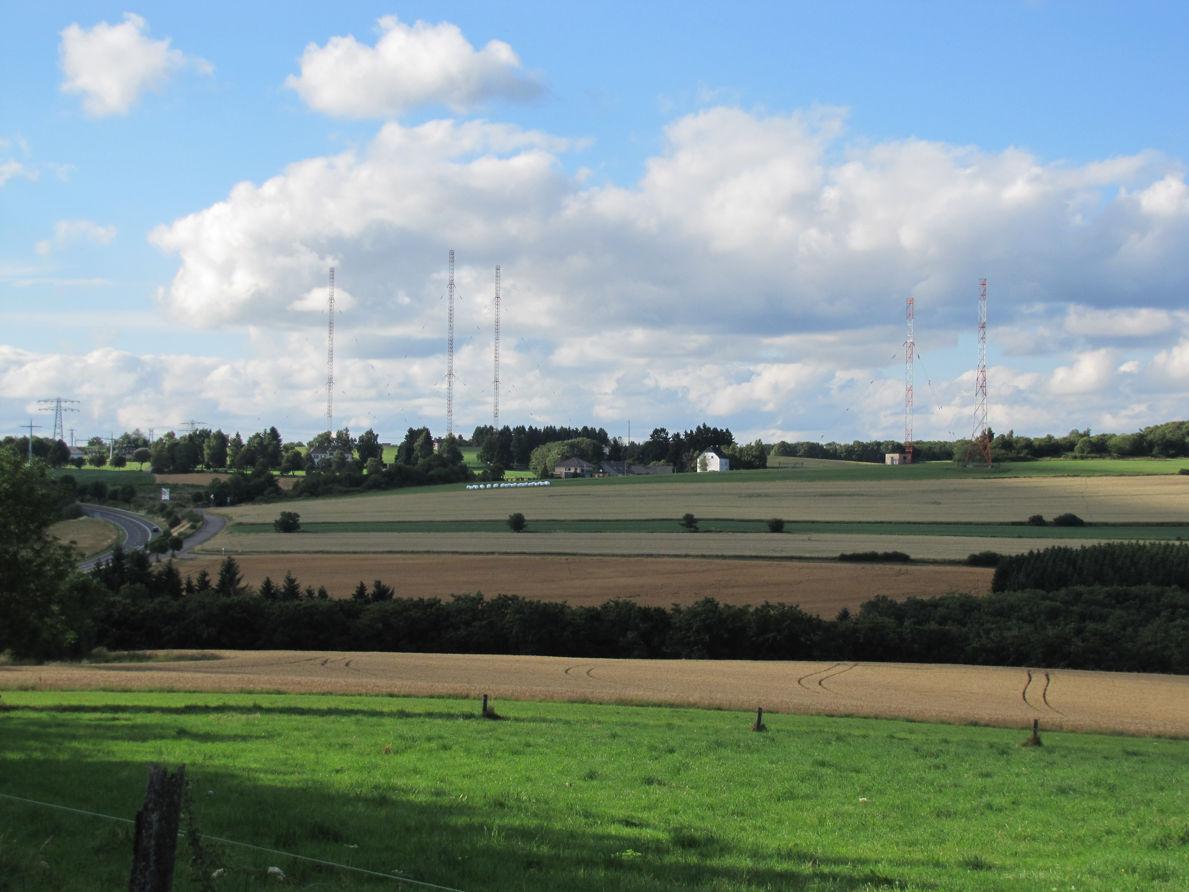 Marnach transmitter, Luxembourg July 2013